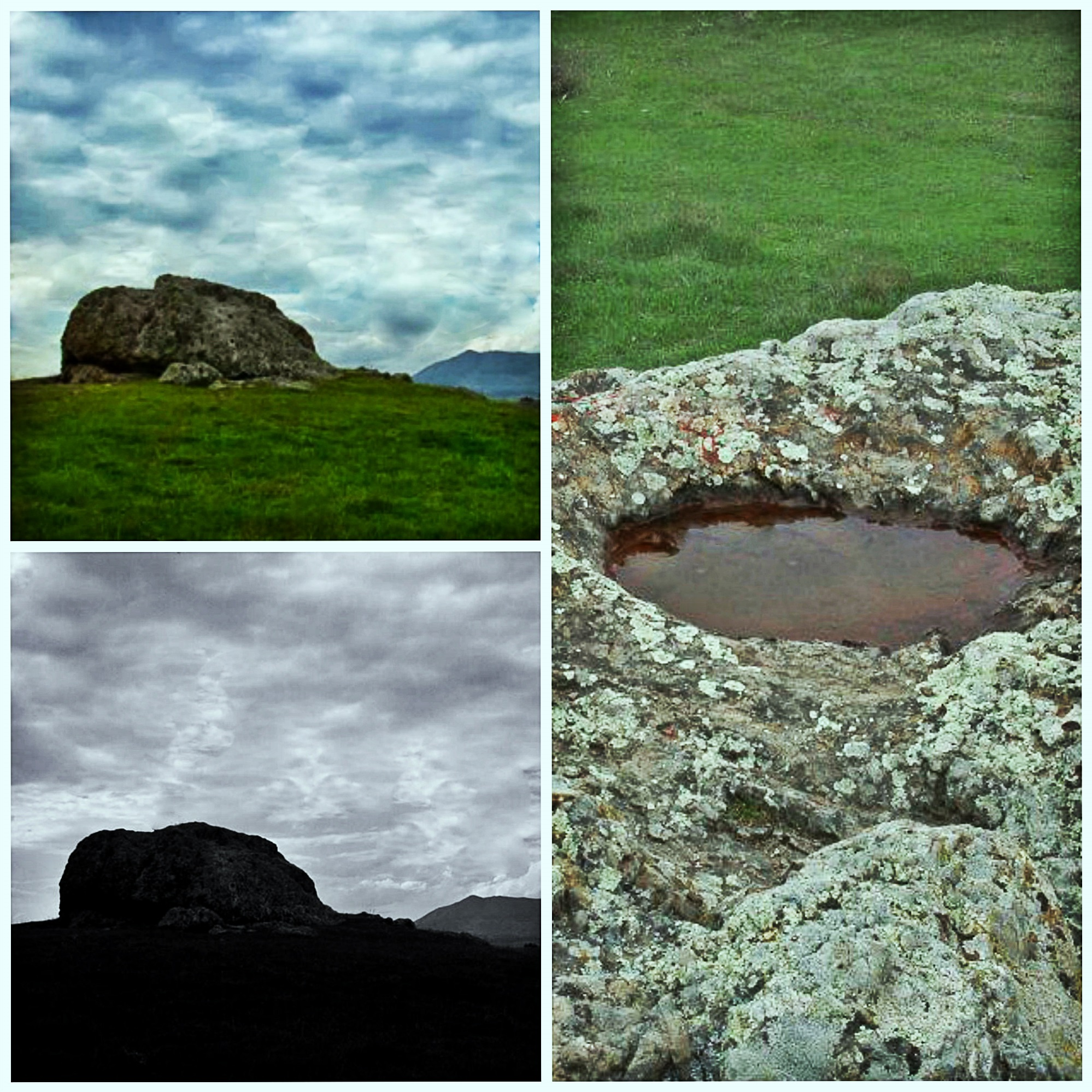 Govedar kamen FYROM